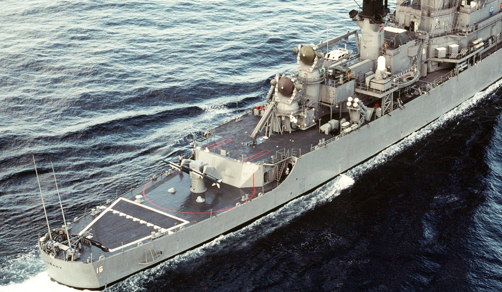 The U.S. Navy guided missile cruiser USS Leahy (CG-16) underway in the Pacific Ocean on 17 January 1983.